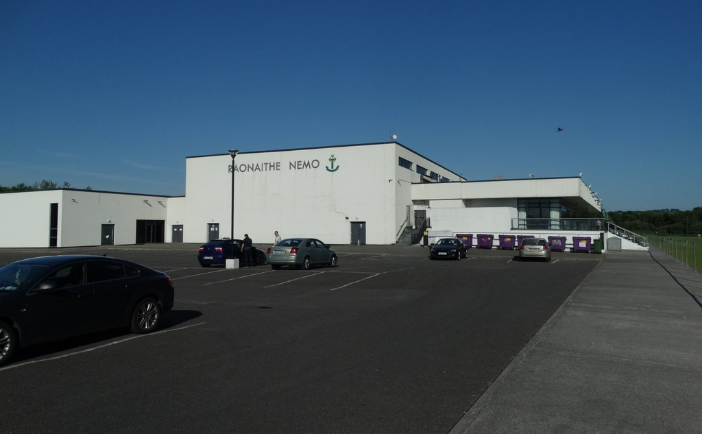 Raonaithe Nemo club building